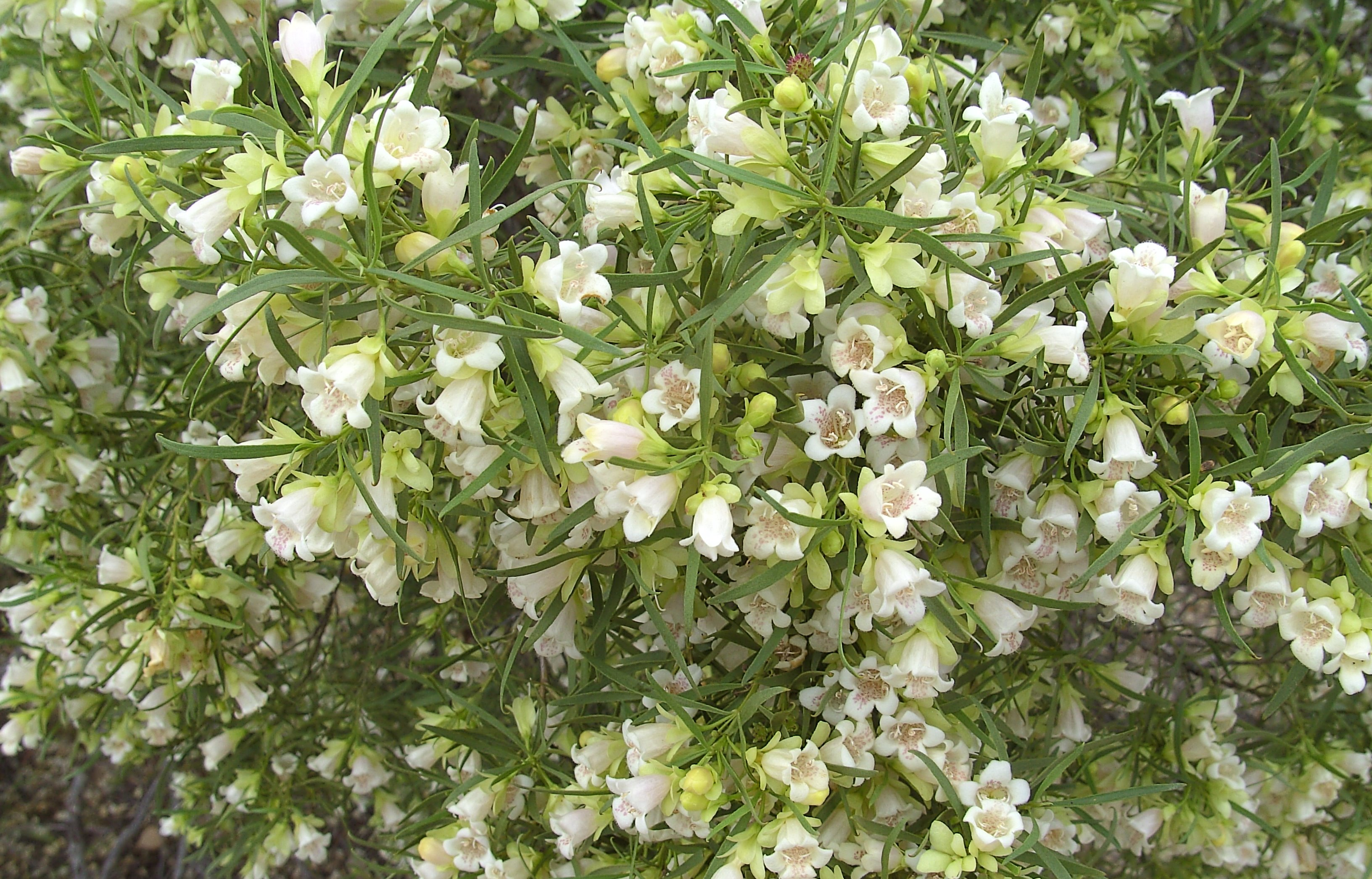 Eremophila mitchellii Good rain a couple of moths ago has created a great display on the Mitchell Highway and north of Bourke.